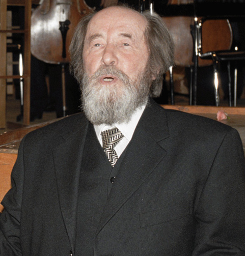 Writer Alexander Solzhenitsyn, winner of the Nobel Prize, at the celebration of his 80th birthday.